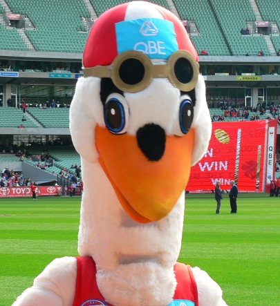 Sydney Swans mascot Cyggie